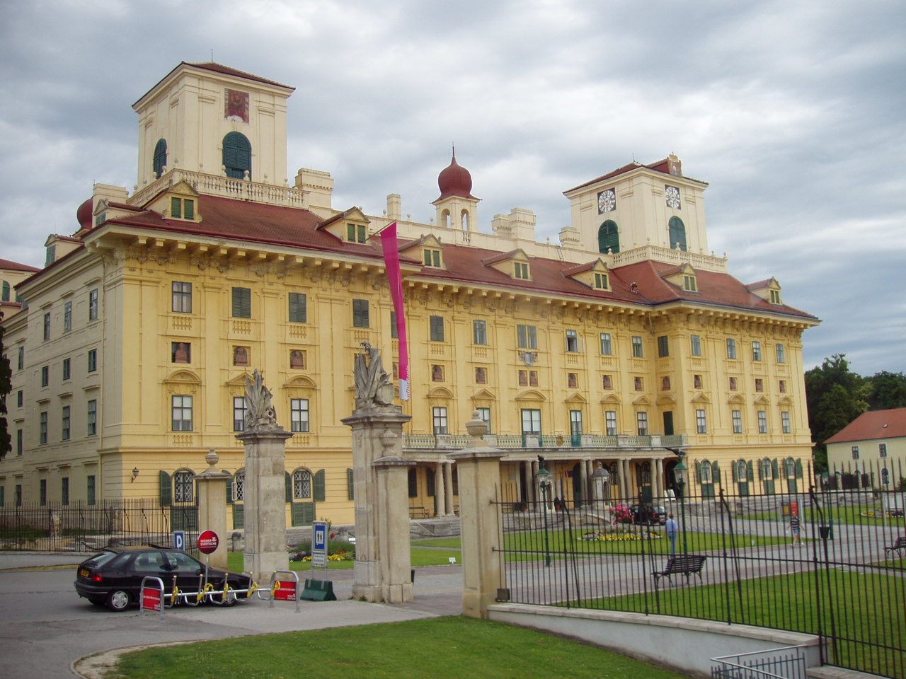 The Front of the Esterhazy Palace Actually, this is the back/rear (stable side) entrance of the Esterhazy Palace. It is, currently, the public entrance to the castle, museum, and performance halls (but, it's not the front).